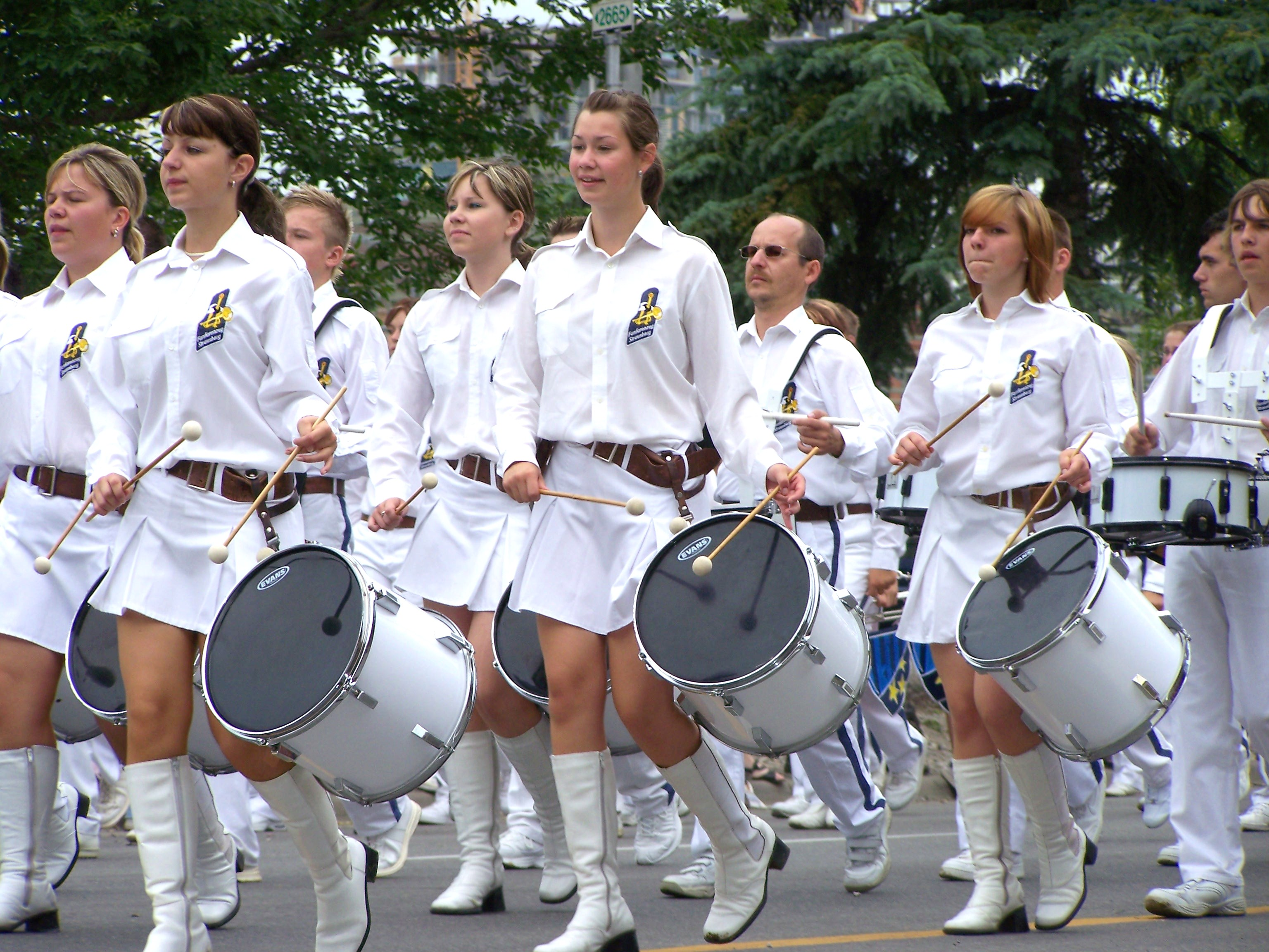 The Fanfarenzug-Strausberg from Germany at the 2008 Calgary Stampede in Alberta, Canada.